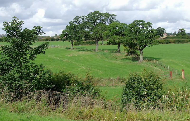 Pasture with oak trees near Barbridge, Cheshire Typical Cheshire pasture seen from the Middlewich Branch Canal.